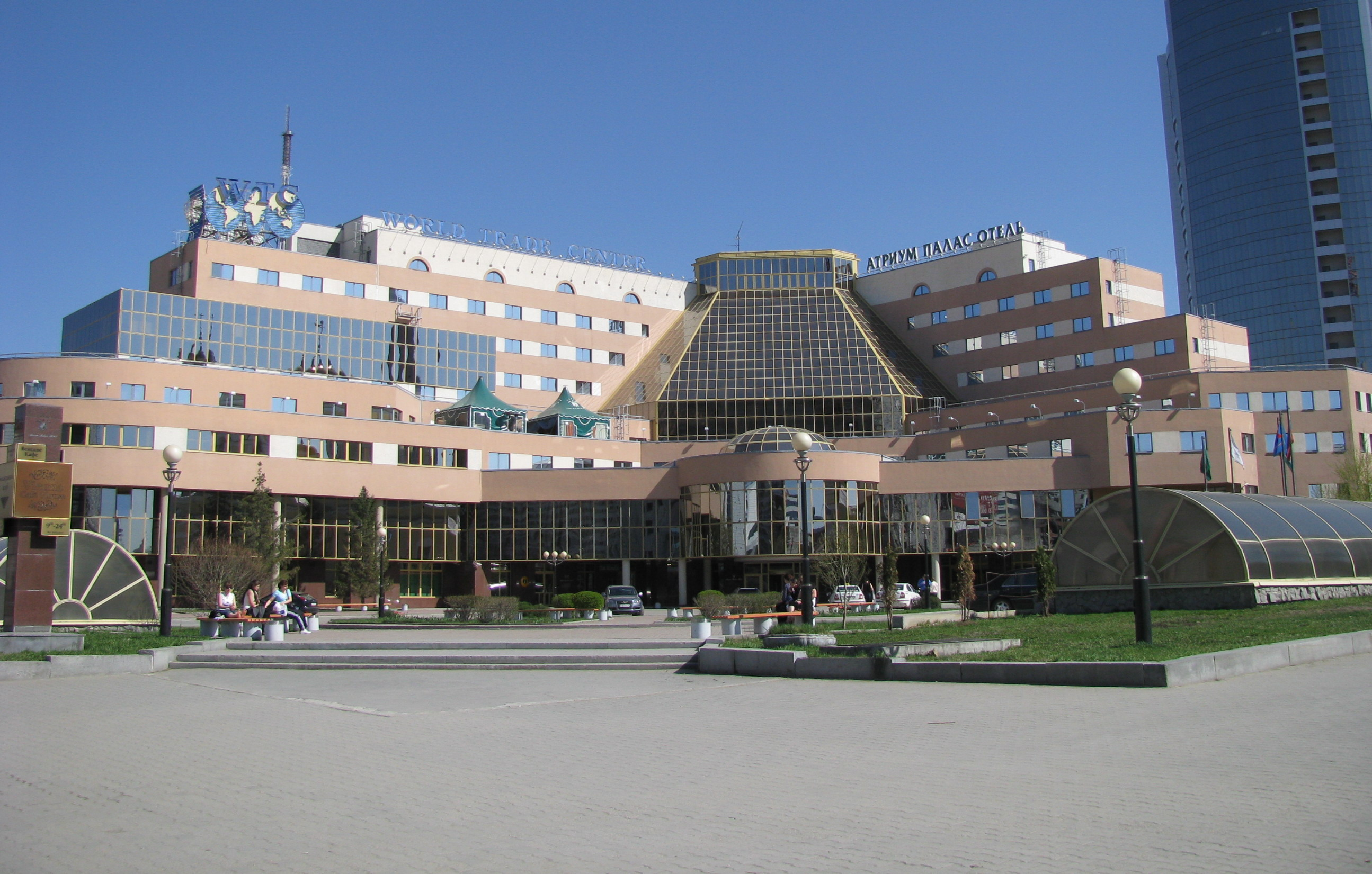 The Atrium Palace Hotel, Yekaterinburg - the first five-star hotel in the Urals (built 1998)